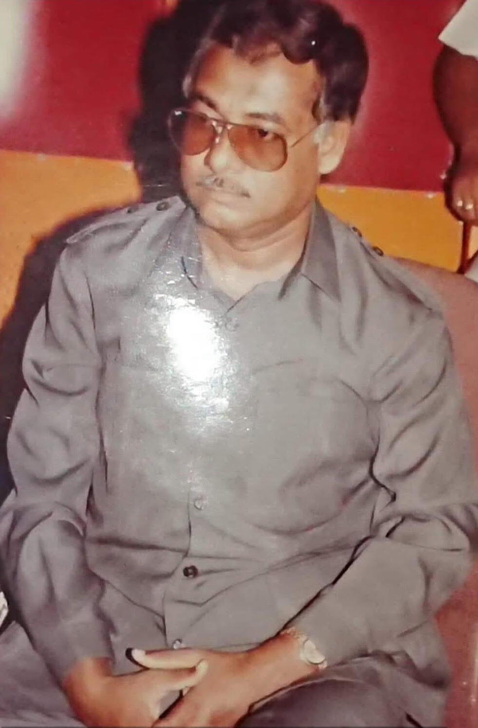 Wazed Ali,1993